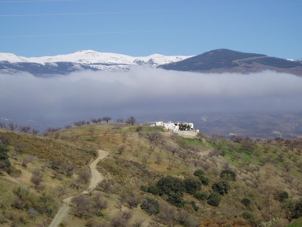 Mulhacén, the highest mountain in peninsular Spain.